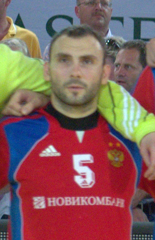 Alexei Shindin 2013